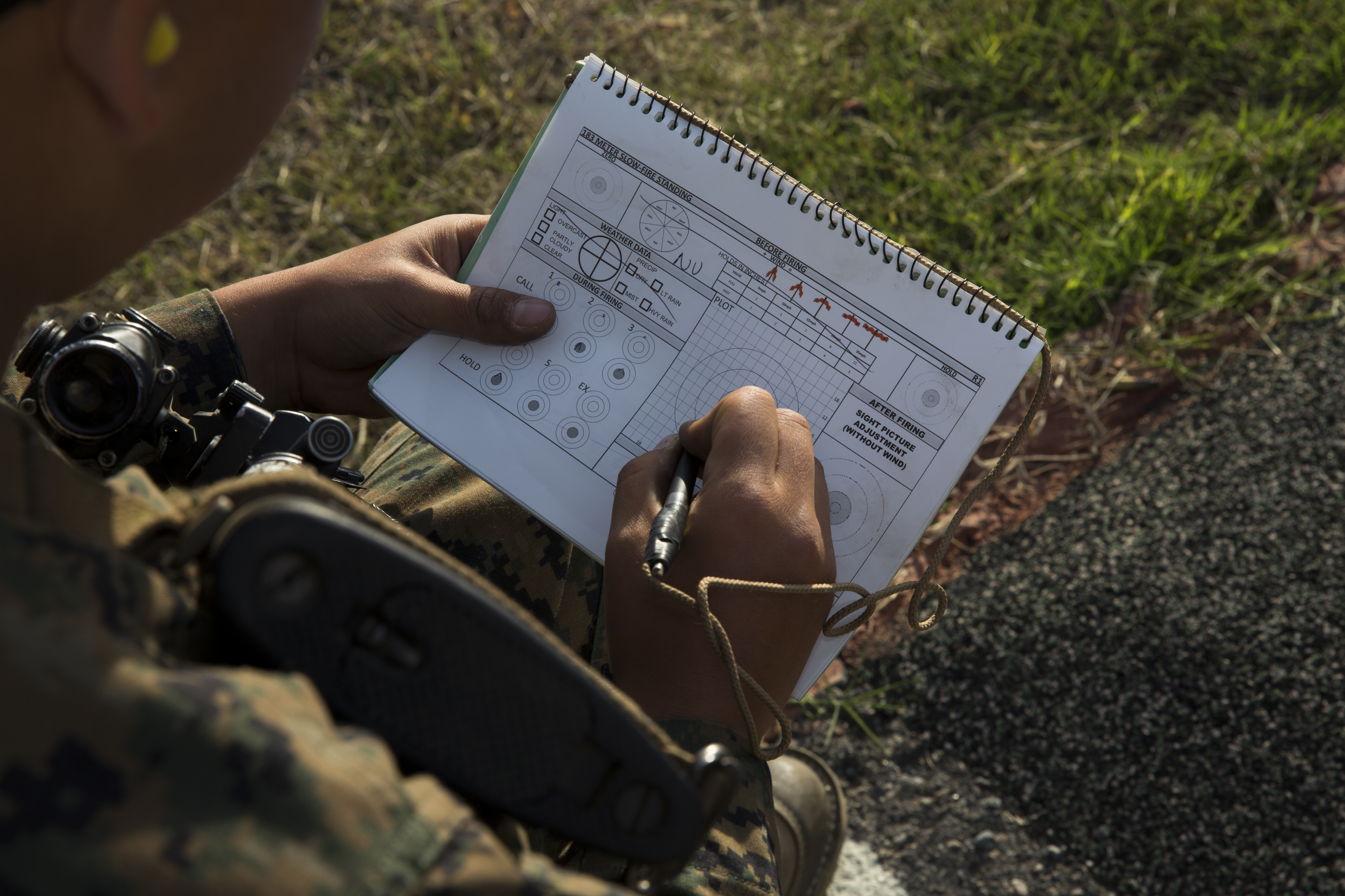 A U.S. Marine Corps recruit with Company L, 3d Recruit Training Battalion, Recruit Training Regiment, plots impacts in his rifle data book aboard Edson Range, Marine Corps Base Camp Pendleton, Calif., April 19, 2016. The recruit plotted the impact area of each shot during a course of fire to correctly adjust his aim. (U.S. Marine Corps photo by Lance Cpl. Erick J. ClarosVillalta/Released) Unit: Marine Corps Recruit Depot, San Diego - Combat Camera DVIDS Tags: Company F; Recruit Training; Fox Company; Range Week; Camp Pendelton; 2D RTBN; 2d Recruit Training Battalion